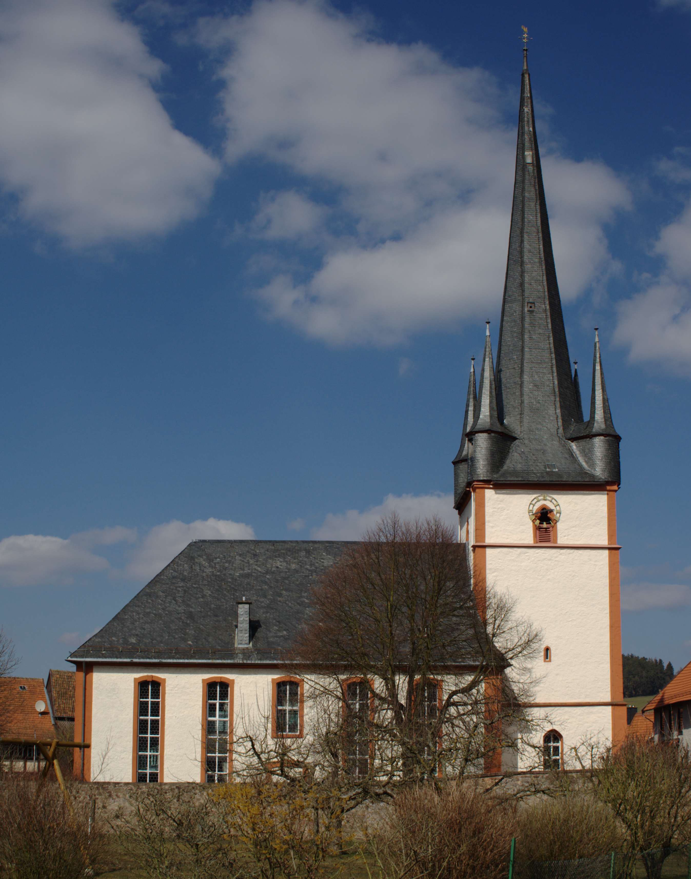 Protestant church in Wartenberg, Angersbach, Hesse, Germany.